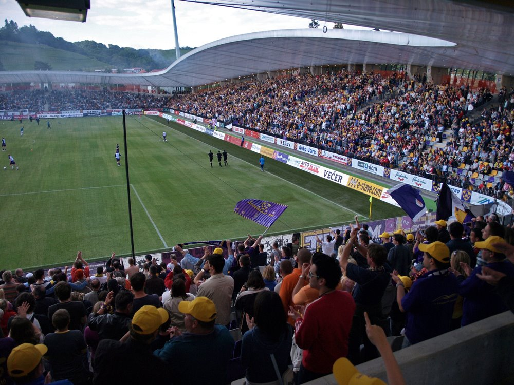 Ljudski vrt 2008 opening match